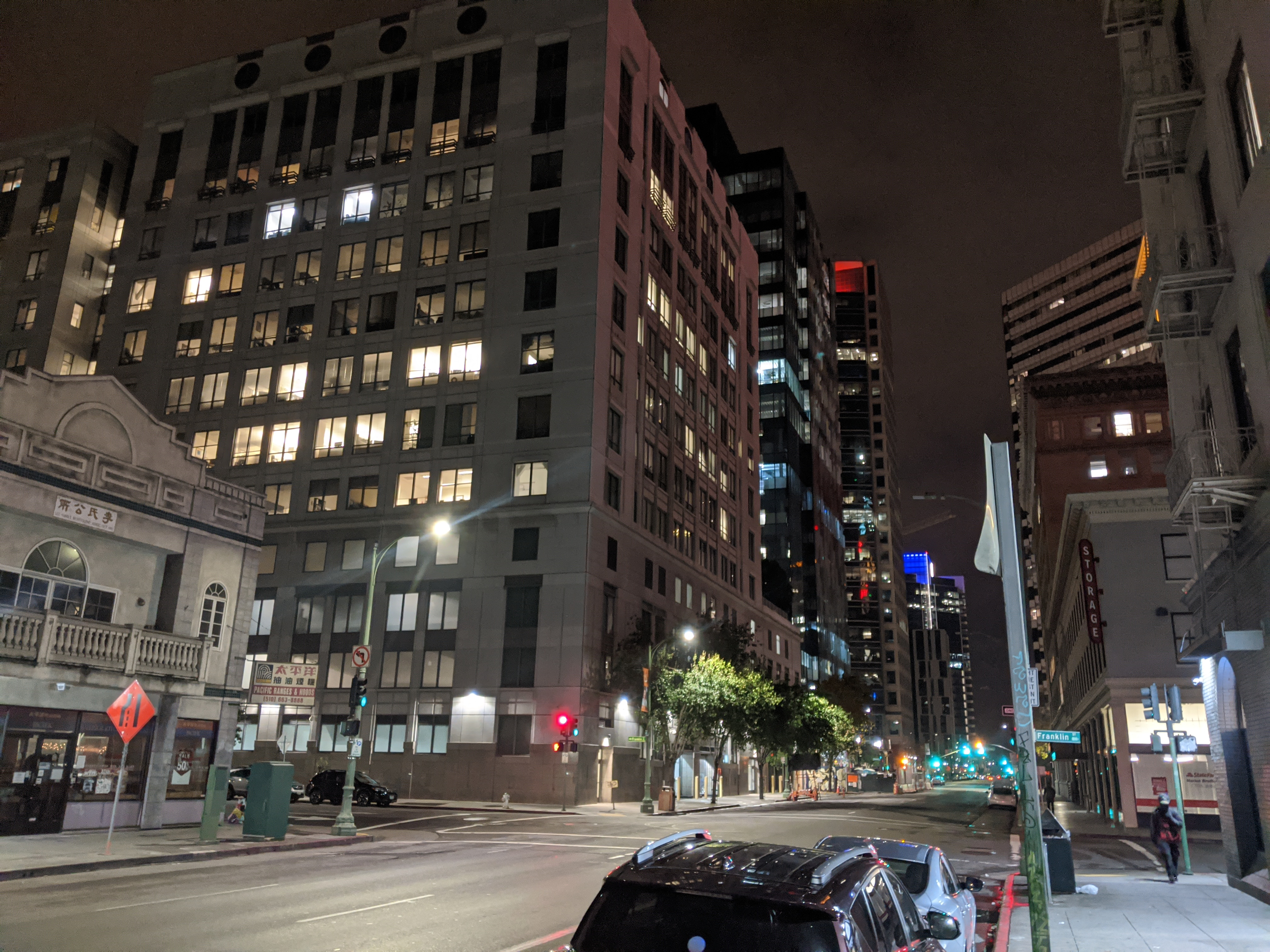 Oakland at night